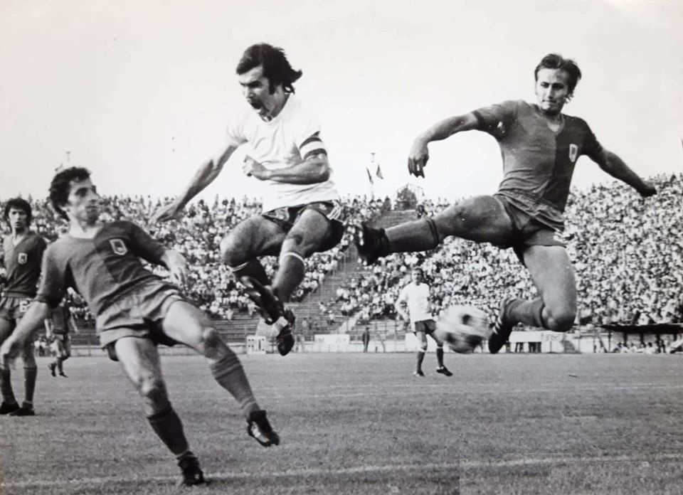 Steaua-FC Bihor 4-2 (1976, Cupa României)